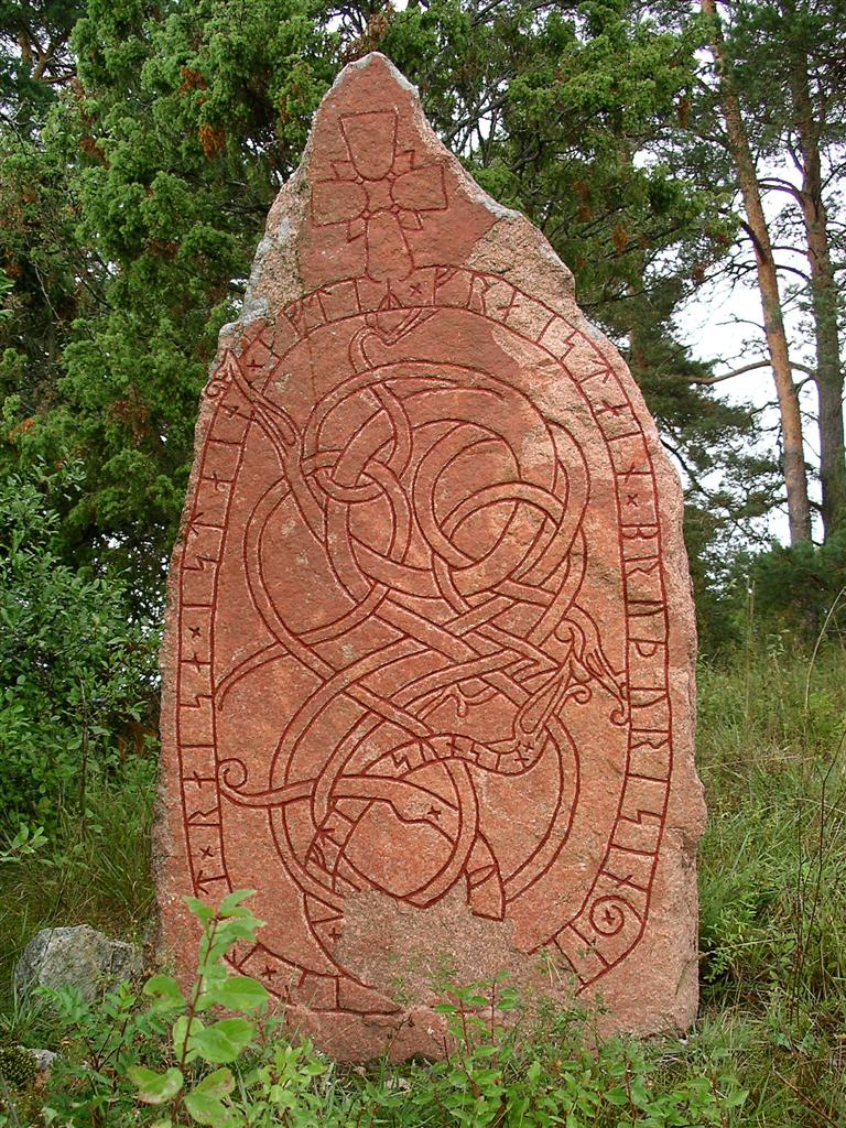 Uppland’s runic inscriptions 227